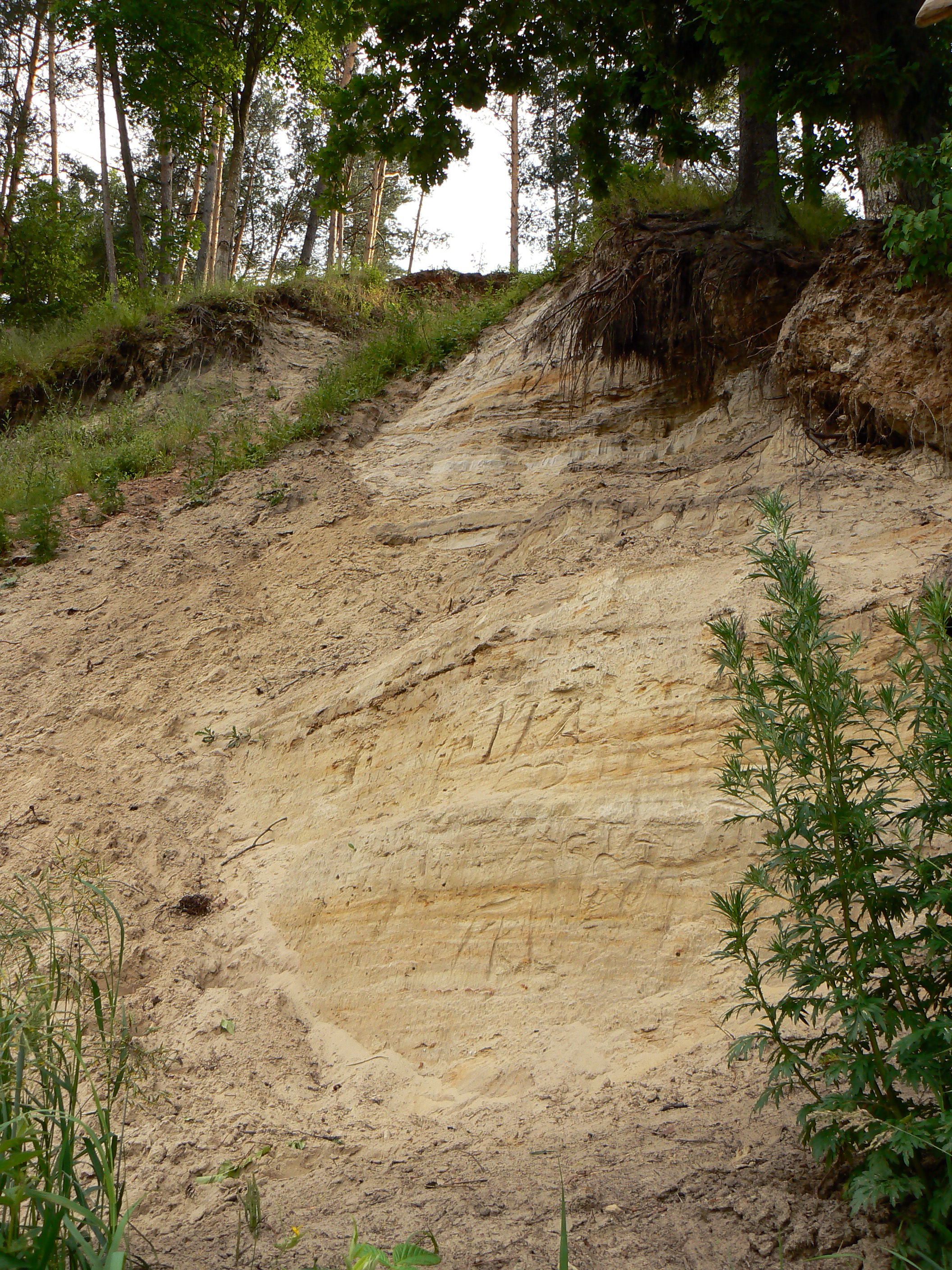 Vetygala exposure in Anykščiai district, Lithuania.